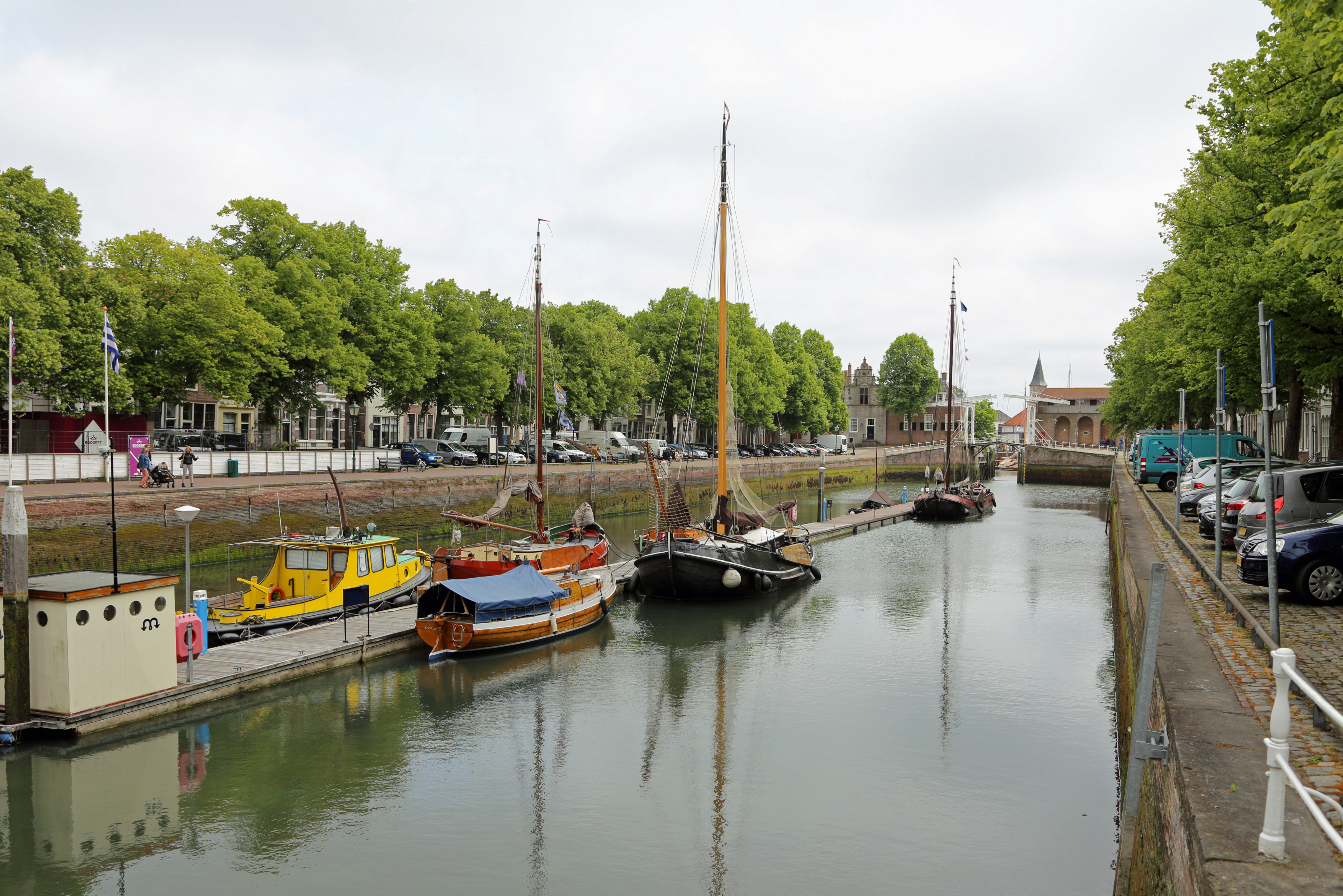 Zierikzee (Netherlands): the Old Harbour